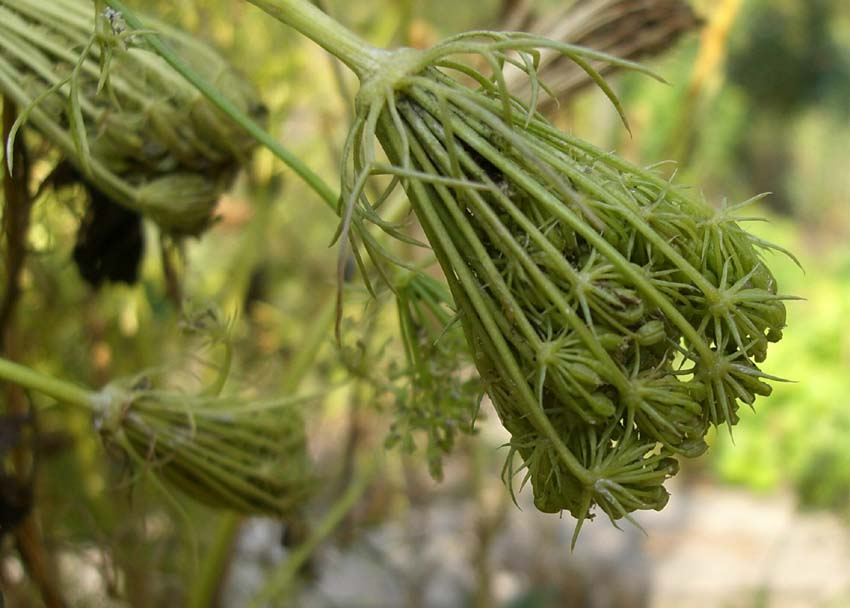 Ammi visnaga. picture taken by M.Redecke in old bot. garden Göttingen / Germany. Everybody may use this picture.